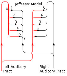 Jeffress model of Delay Lines with coincidence detectors